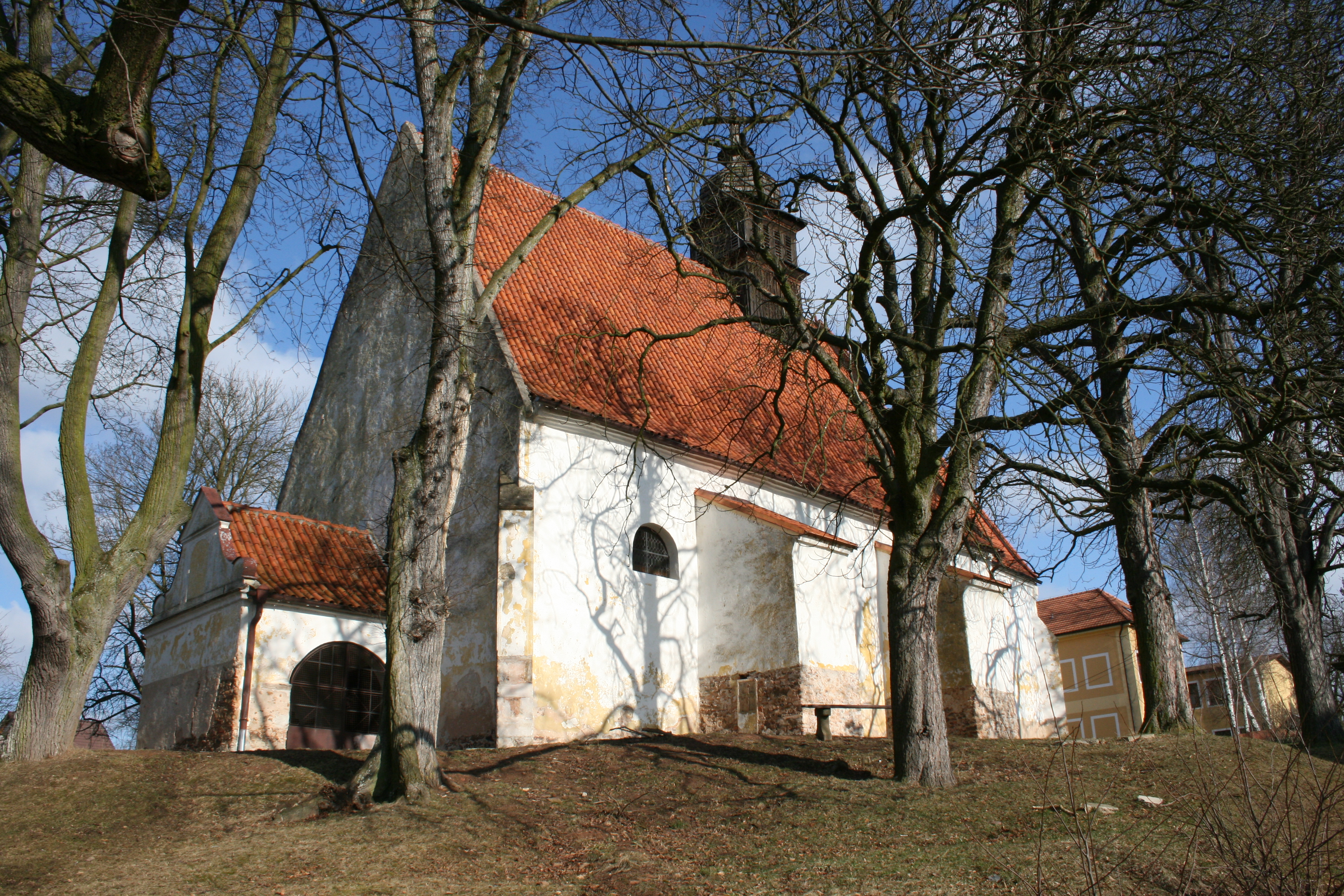 Village Sudoměřice u Bechyně, Tábor District, Czech Republic. Church